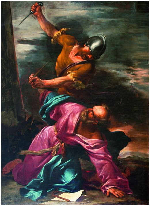 Death of Archimedes